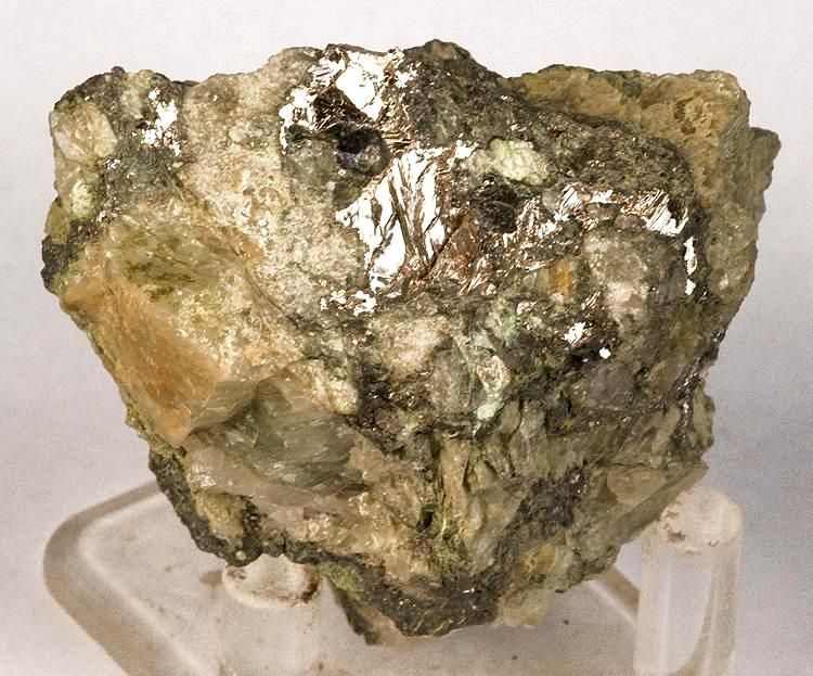 Bismuth Locality: Mistress Mine, Harare District, Zimbabwe (Locality at ) Size: 6.1 x 5.1 x 4.4 cm. Brilliant, silver-metallic plates of native bismuth richly cover one face of this rich ore specimen from a very uncommon Zimbabwe locality - the Mistress Mine. Veinlets of native bismuth crisscross the brecciated quartz matrix on this older specimen from a district that produced gold and rare bismuth tellurium minerals. Additional rare minerals are probably in these veins. Weighs 263 grams. Ex. J.P. Gliddon and Wesley Stark Collections.